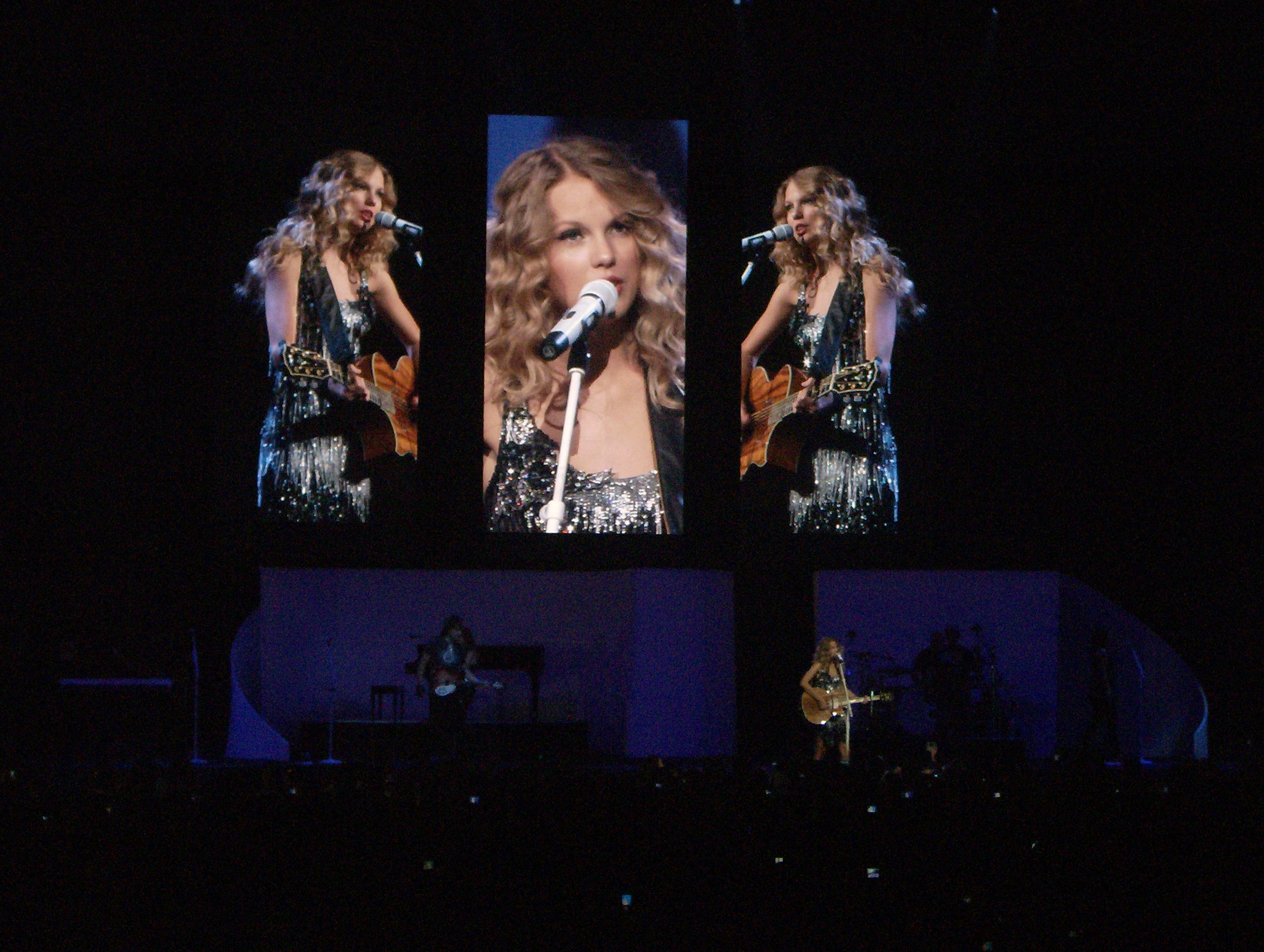 Taylor Swift performing in Philadelphia